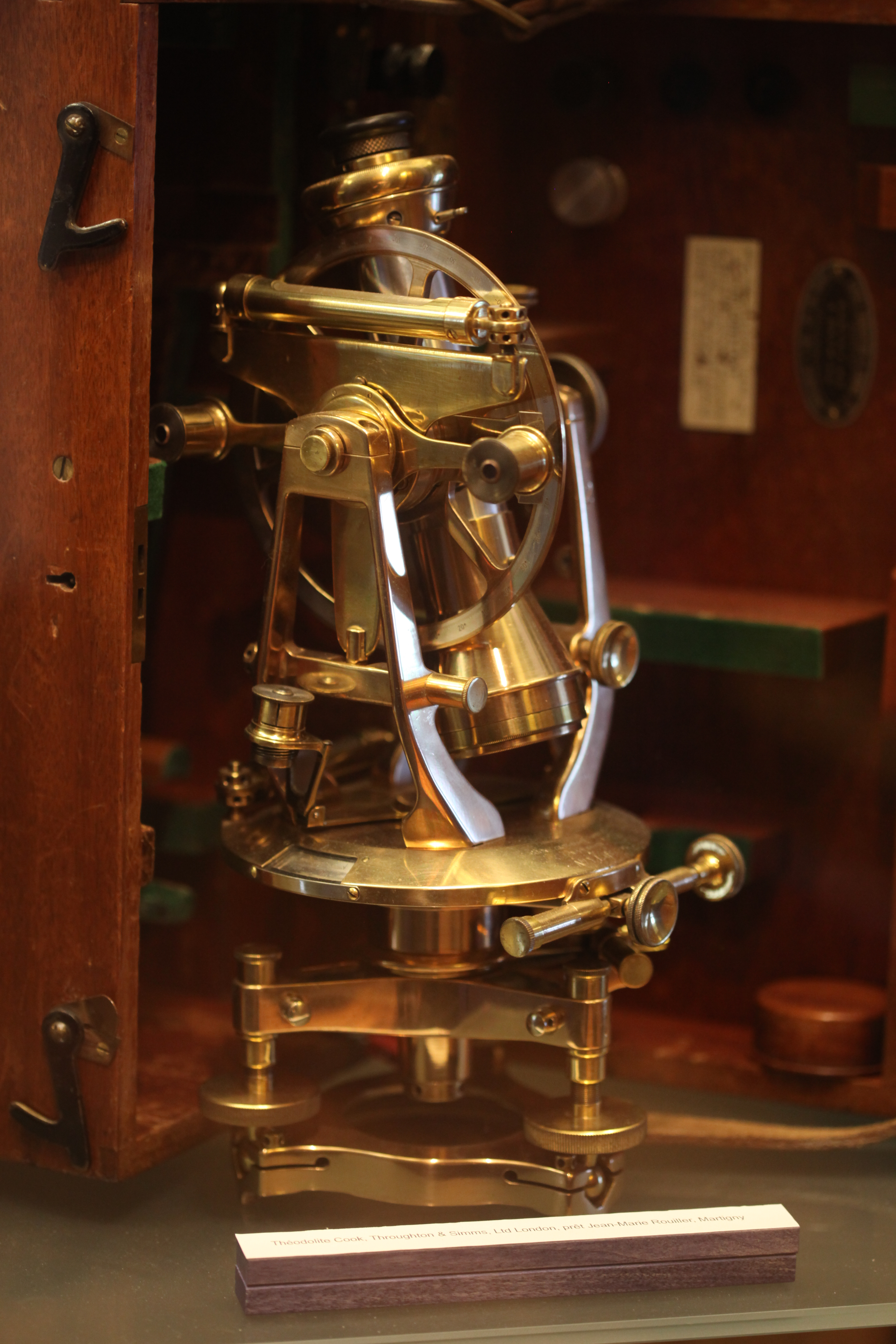 Theodolite made by Cooke, Troughton & Simms. On display at Sion History museum.